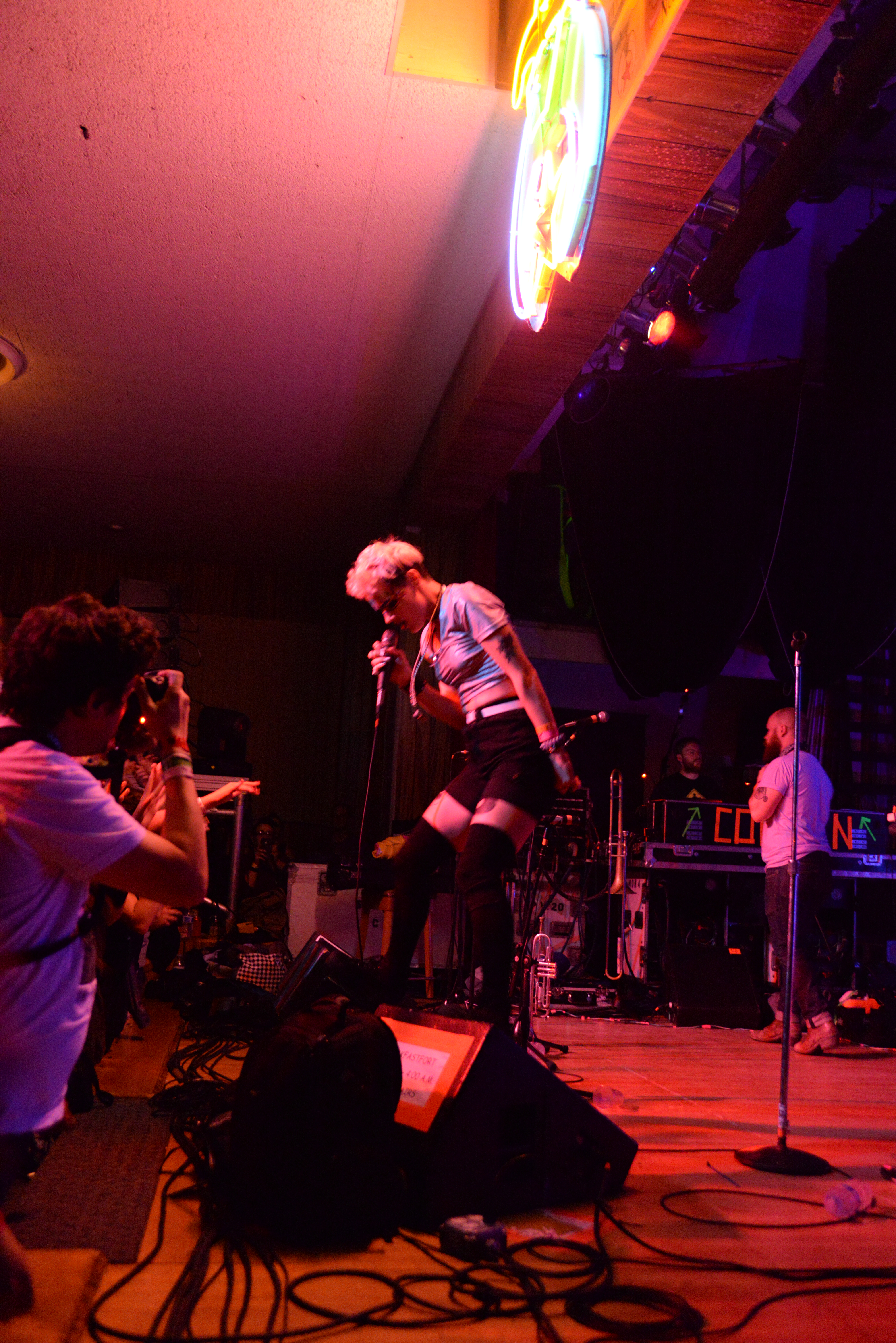 Rubblebucket-El Korah Shrine-Treefort2015-Credit-Kasey Elliott